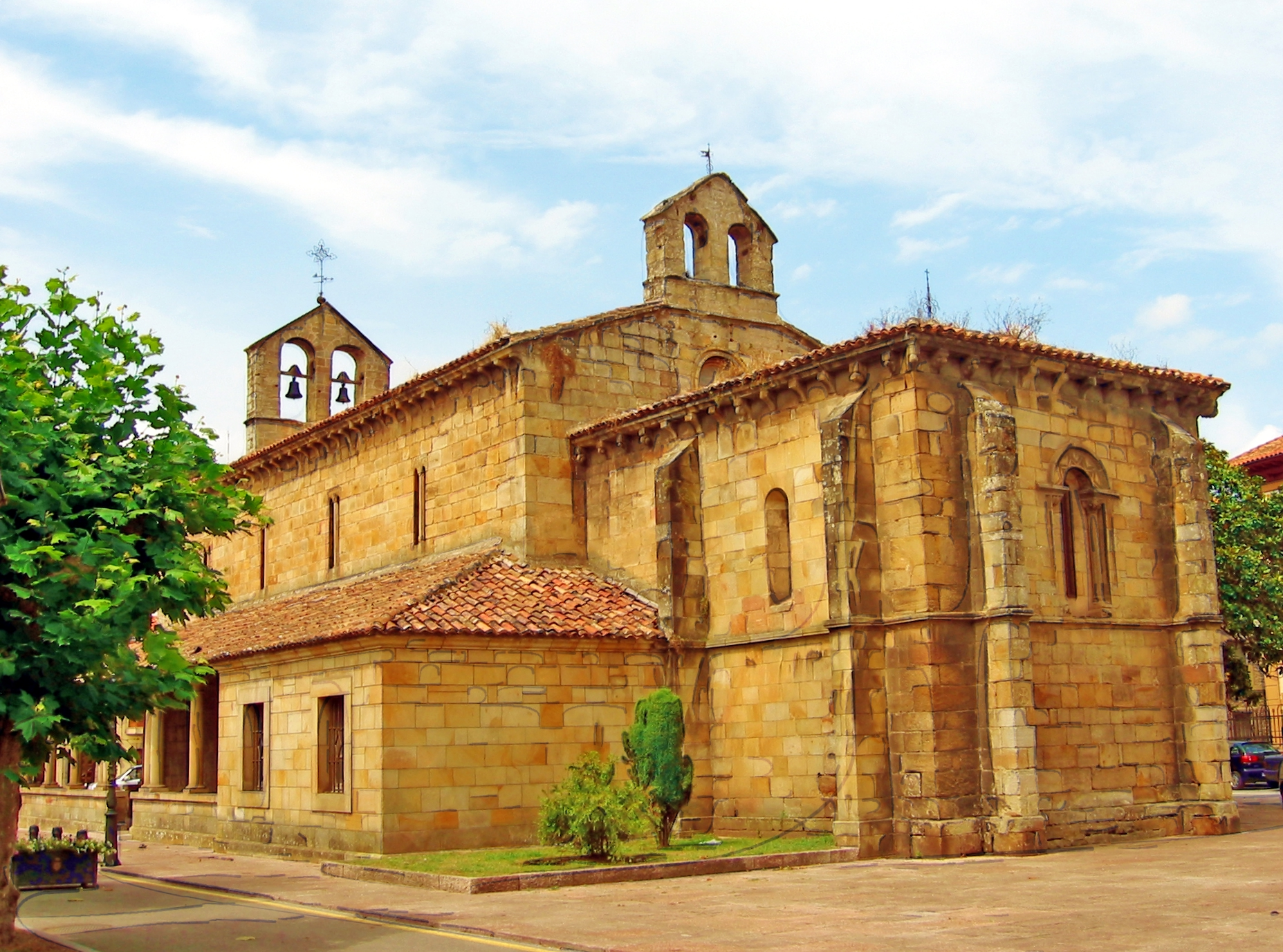 Santa María de la Oliva. In Villaviciosa (Asturias, Spain). Church built at the end of the 13th century.